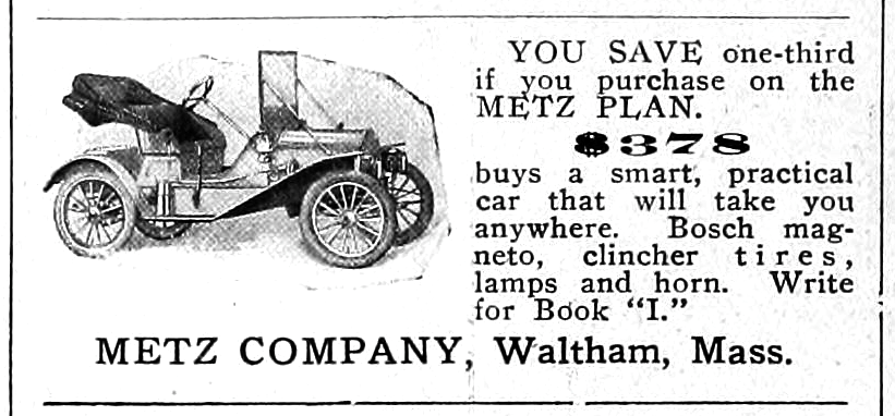 Metz Co., Waltham, Mass. ad, offering a Metz Model Two 12 hp runabout. The car was available under the Metz plan for self-construction in 14 packets at $27 ea, or factory assembled at $ 475. .